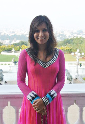 This is a photo taken of Malini Agarwal in Hyderabad